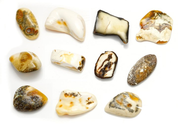 Unique colours of Baltic amber. Polished stones.